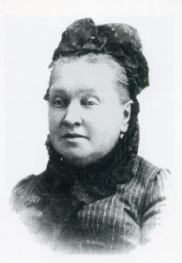 Ekaterina Petrovna Lishina (1826-1896), first wife of Heinrich Schliemann